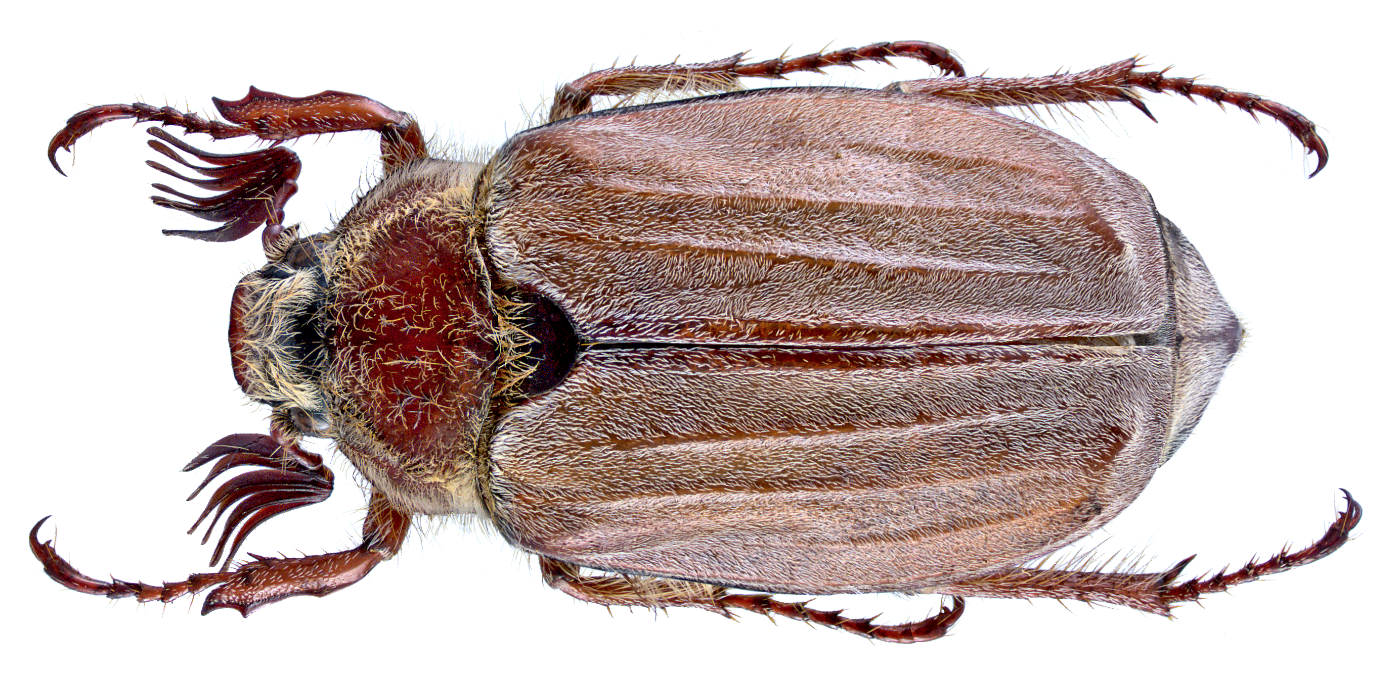 Family: Scarabaeidae Size: 23 mm (22-26 mm) Origin: Euro-Siberian species Ecology: in forest areas, larvae feed on roots Location: Germany, Bavaria, Upper Franconia, Kulmbach leg.det. U.Schmidt, 24.V.1972 Photo: U.Schmidt, 2014